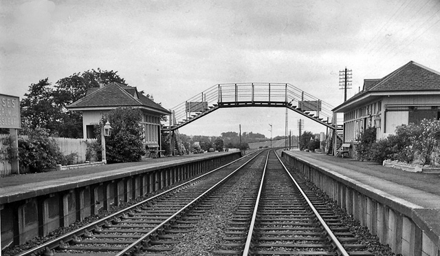 Belses Station. View NE, towards St Boswells and Edinburgh; Edinburgh (Waverley) - Galashiels - St Boswells - Hawick - Carlisle (Waverley Route) Main line. Belses Station closed on 6/1/69, when the whole route (between Portobello East Junction and Carlisle No. 3 Box) was closed to passengers. Goods Edinburgh - Hawick (mainly coal from Lady Victoria Pit to Portobello contined until 28/4/69 and Newtongrange - Millerhill remained intact until 28/6/72; while Longtown -Brunthill lasted until 31/8/70, leaving only Brunthill -Carlisle open for goods. The closure of the Waverley Route was one of the most drastic of the Beeching Period, affecting the whole of Border Counties. It was justified on the grounds of there being alternative Anglo-Scottish through routes, while the switch of rail traffic to road in a sparsely populated area had virtually oblterated the demand for local transport by rail. In the past 40 years, 'express' bus services have ben deemed adequate to serve the population of the Borders towns such as Hawick who are very young or very old and have no cars. However, as is well known, a new railway between Edinburgh and Galashiels is about to be built and consideration is being giveb to reopening the whole Waverley Route eventually.